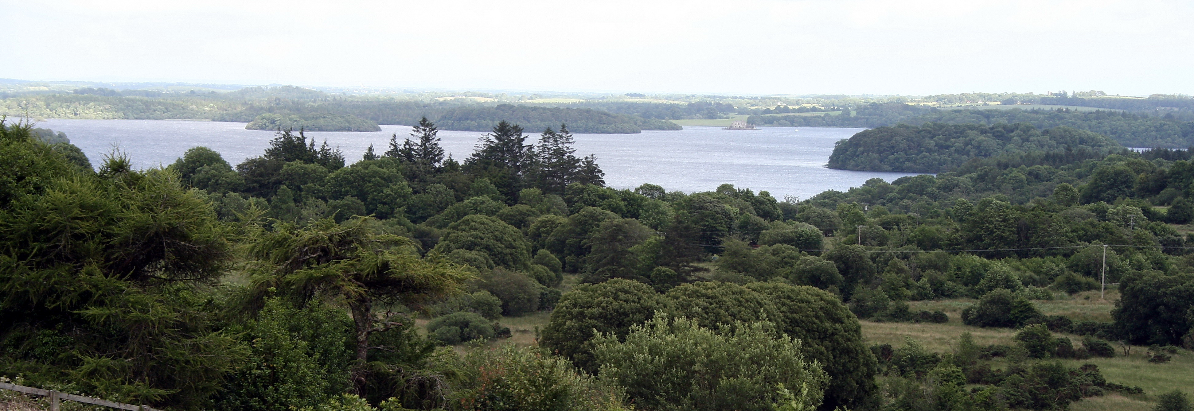 Lough Key, County Roscommon. Ireland